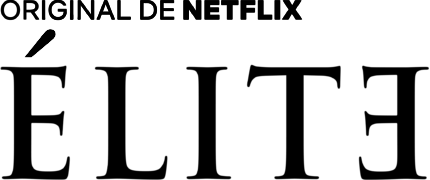 The logo of Élite